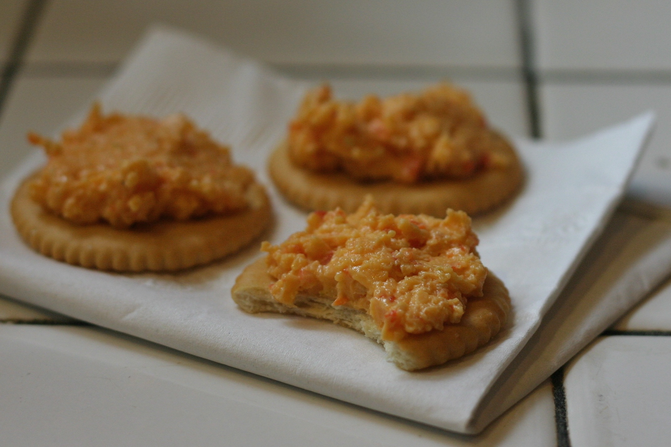 Jessica will have the recipe up shortly